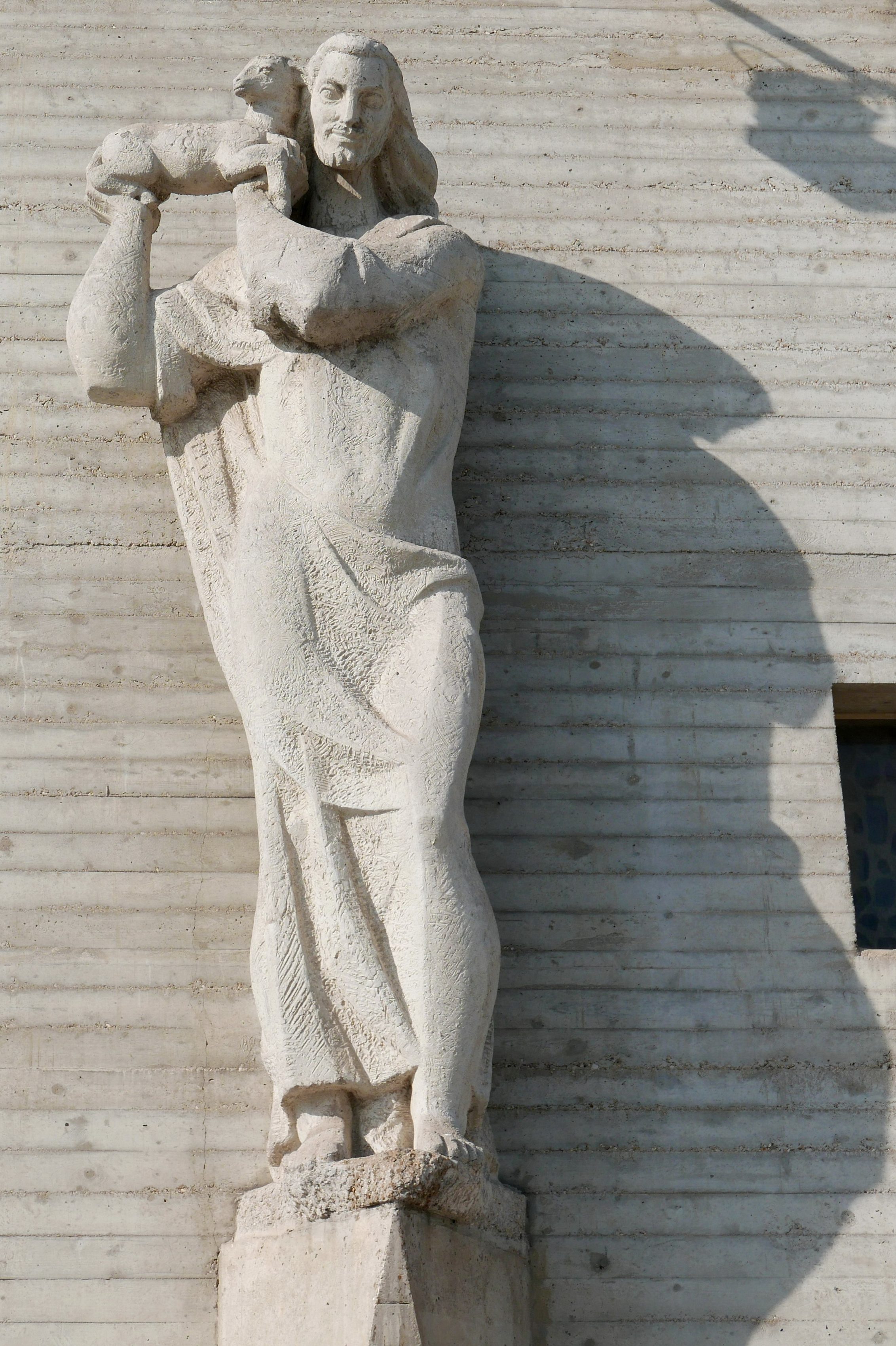 Statue of Jesus Christ as "The Good Shepherd" by Otokar Čičatka, Parish Church Zum Guten Hirten, Vienna, Hietzing, Austria